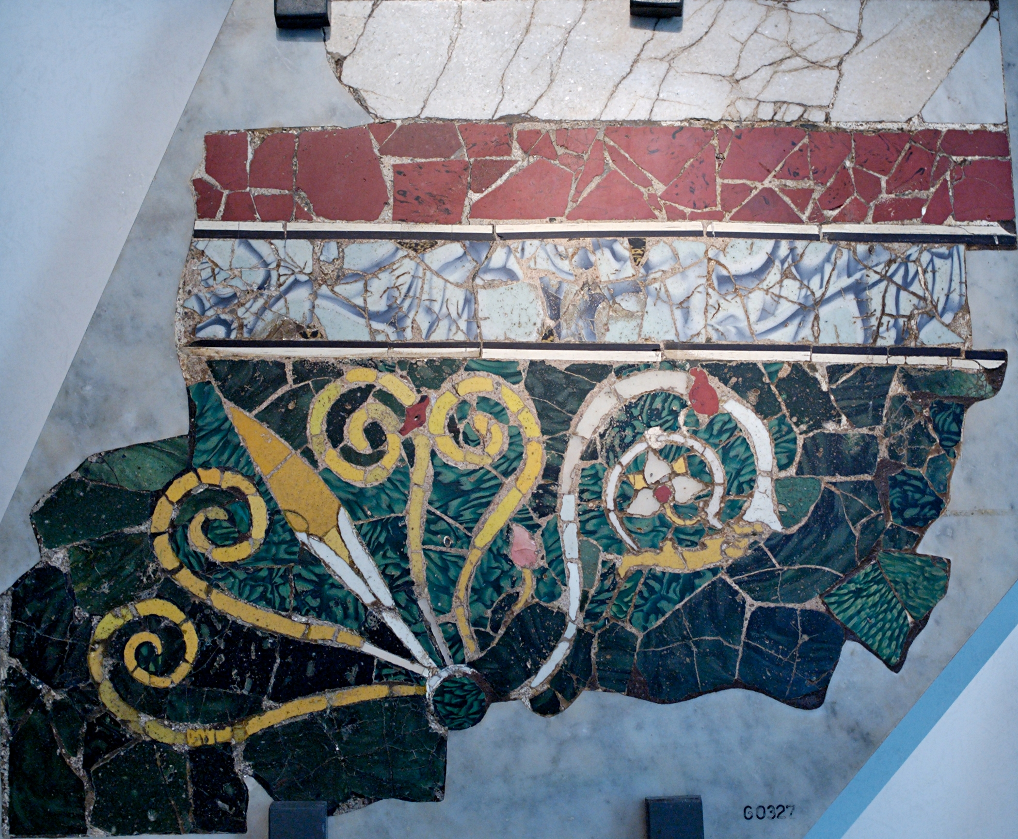 Glass opus sectile panel with floral decoration. Roman artwork, 2nd century CE. May come from the villa of Lucius Verus in Acquatraversa.